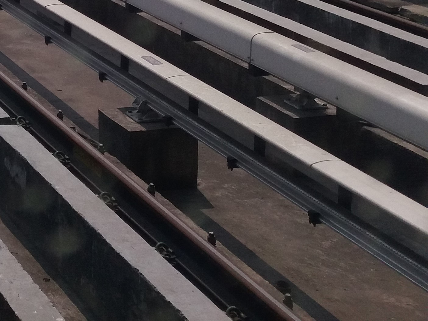 Third rail at Salt Lake Stadium Merto Station.